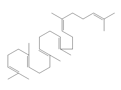 Squalene